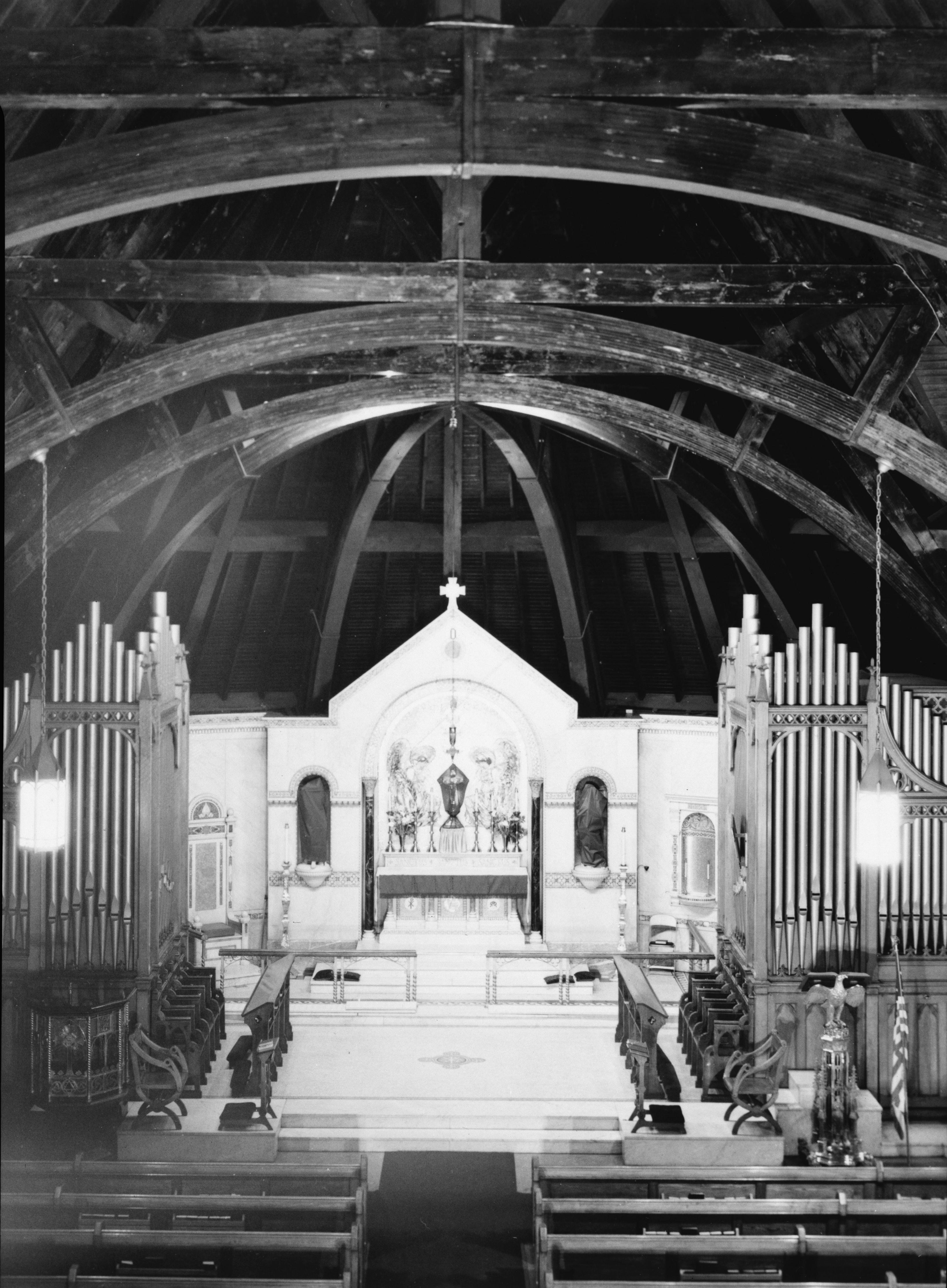 Emmanuel Protestant Episcopal Church, North & Allegheny Streets, Pittsburgh, Allegheny County, PA designed by Henry Hobson Richardson in the Richardsonian Romanesque style. Listed as a National Historic Landmark.